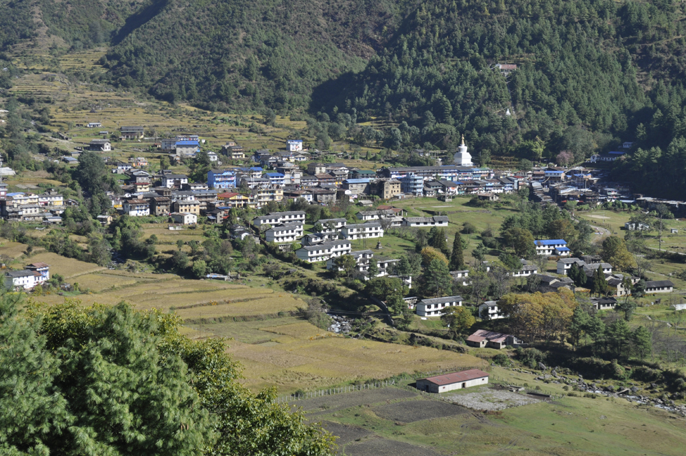 A town situated in Dolkha District in Nepal.